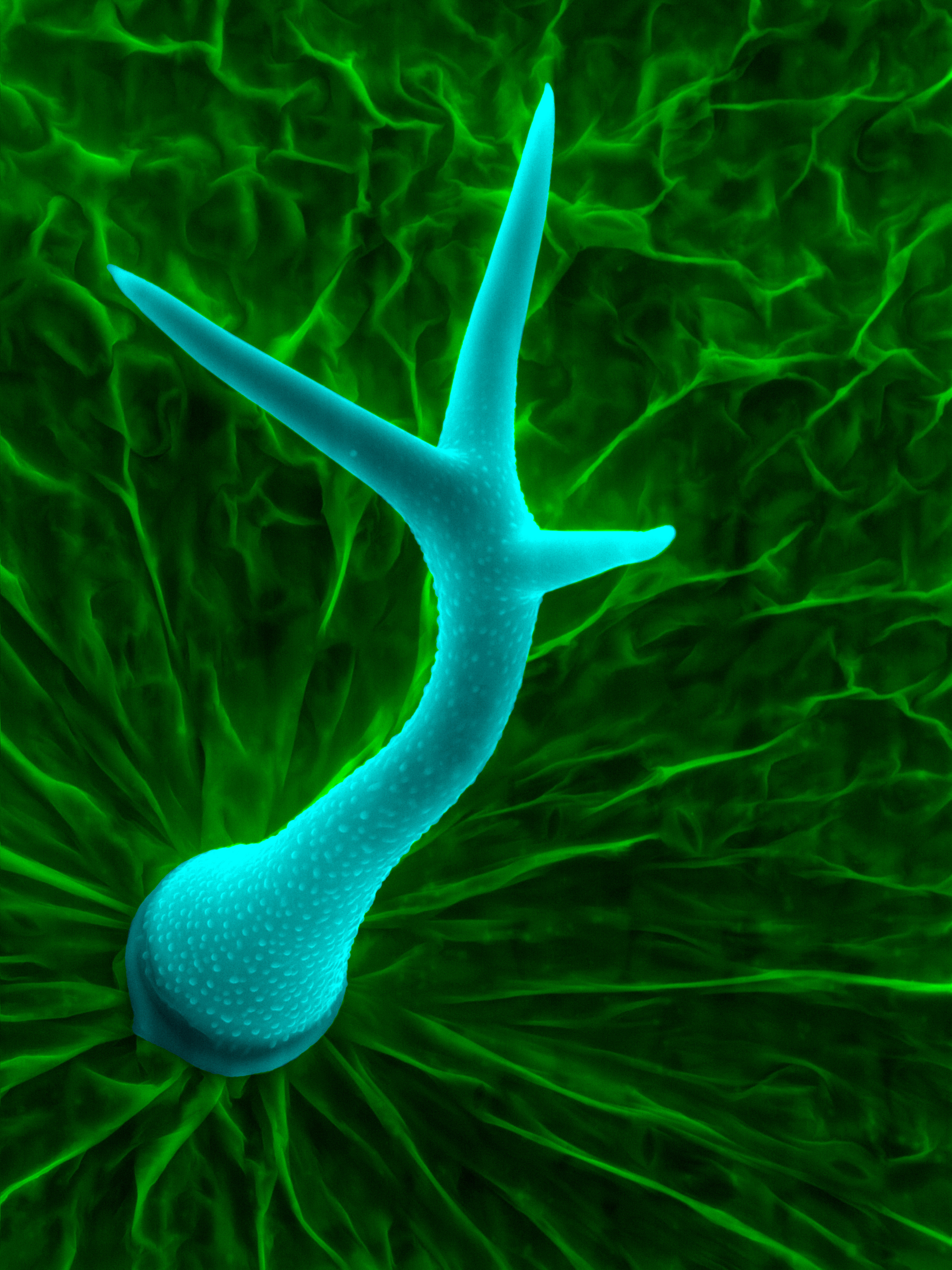 Scanning electron micrograph of trichome: a leaf hair of thale cress (Arabidopsis thaliana), an unique structure that is made of a single cell. Image is made in Tallinn University of Technology.